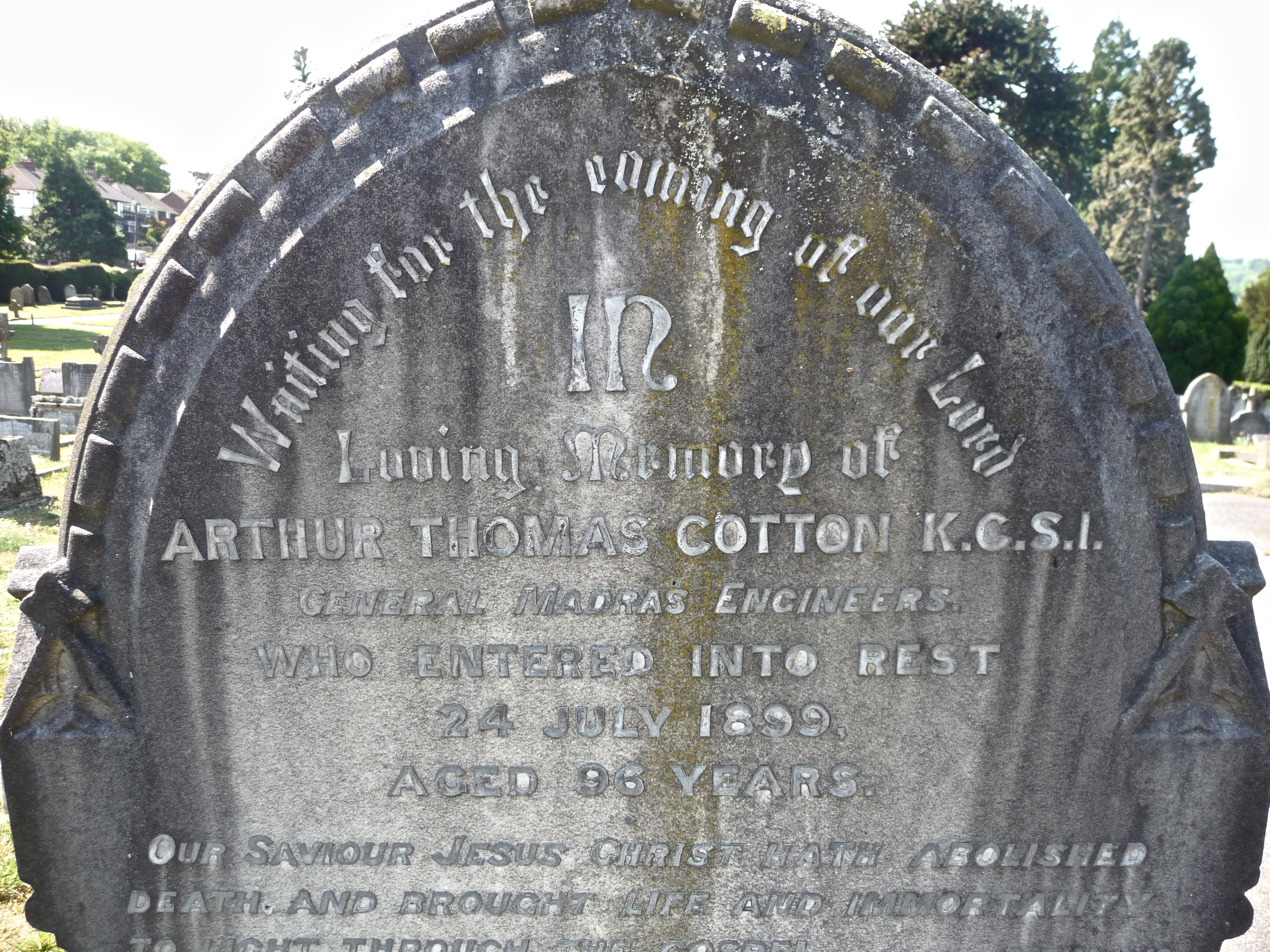 Headstone of Sir Arthur Cotton